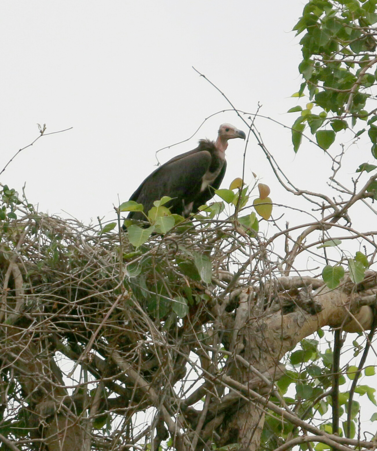 Red headed vulture at Narsinghgarh wildlife sanctuary. Vulture was seen sitting at its nest just before the rains and then took off.